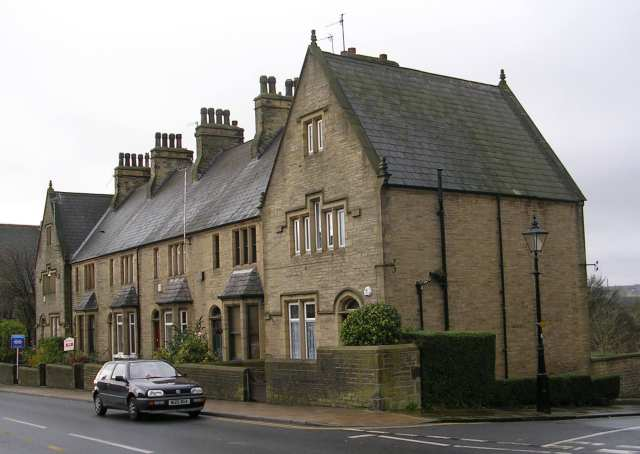 Akroydon - Boothtown Road